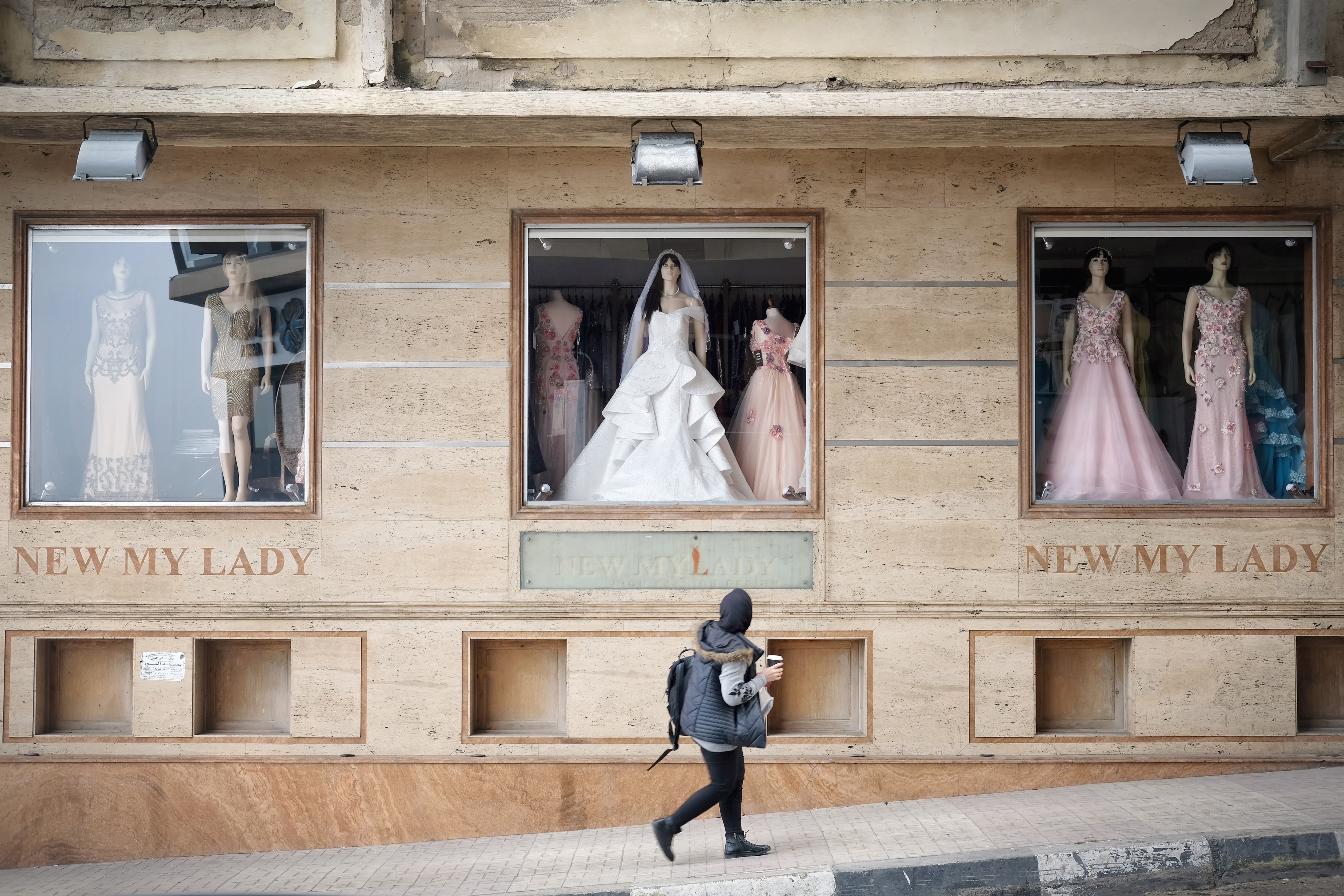 The life in Alexandria streets - Alexandria - Egypt This is an image with the theme "Africa on the Move or Transport" from: Egypt